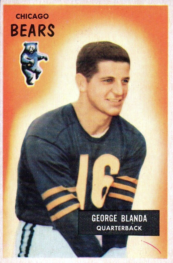 George Blanda on a 1955 Bowman football card